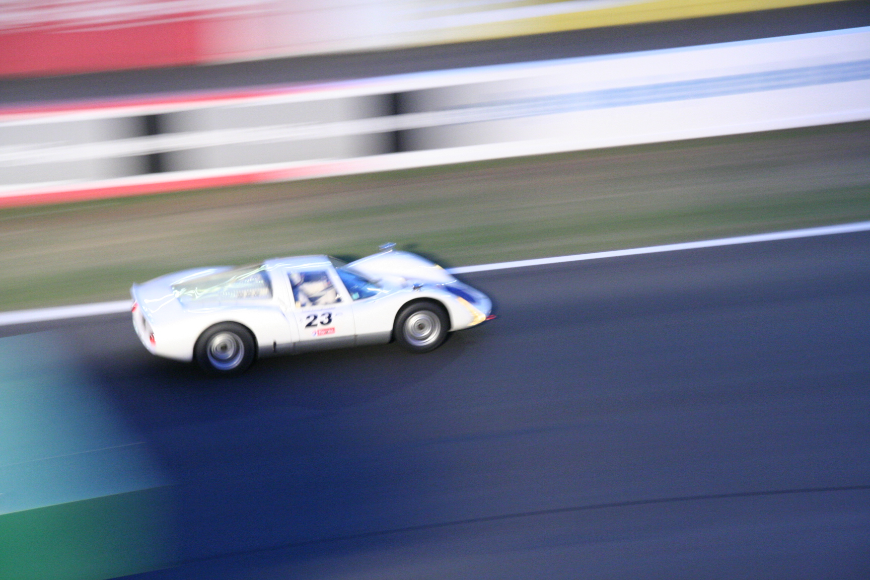 Porsche 906 at LeMansClassic